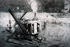 Photo of the groundbreaking for the East Midwood Jewish Center, July 13, 1925.